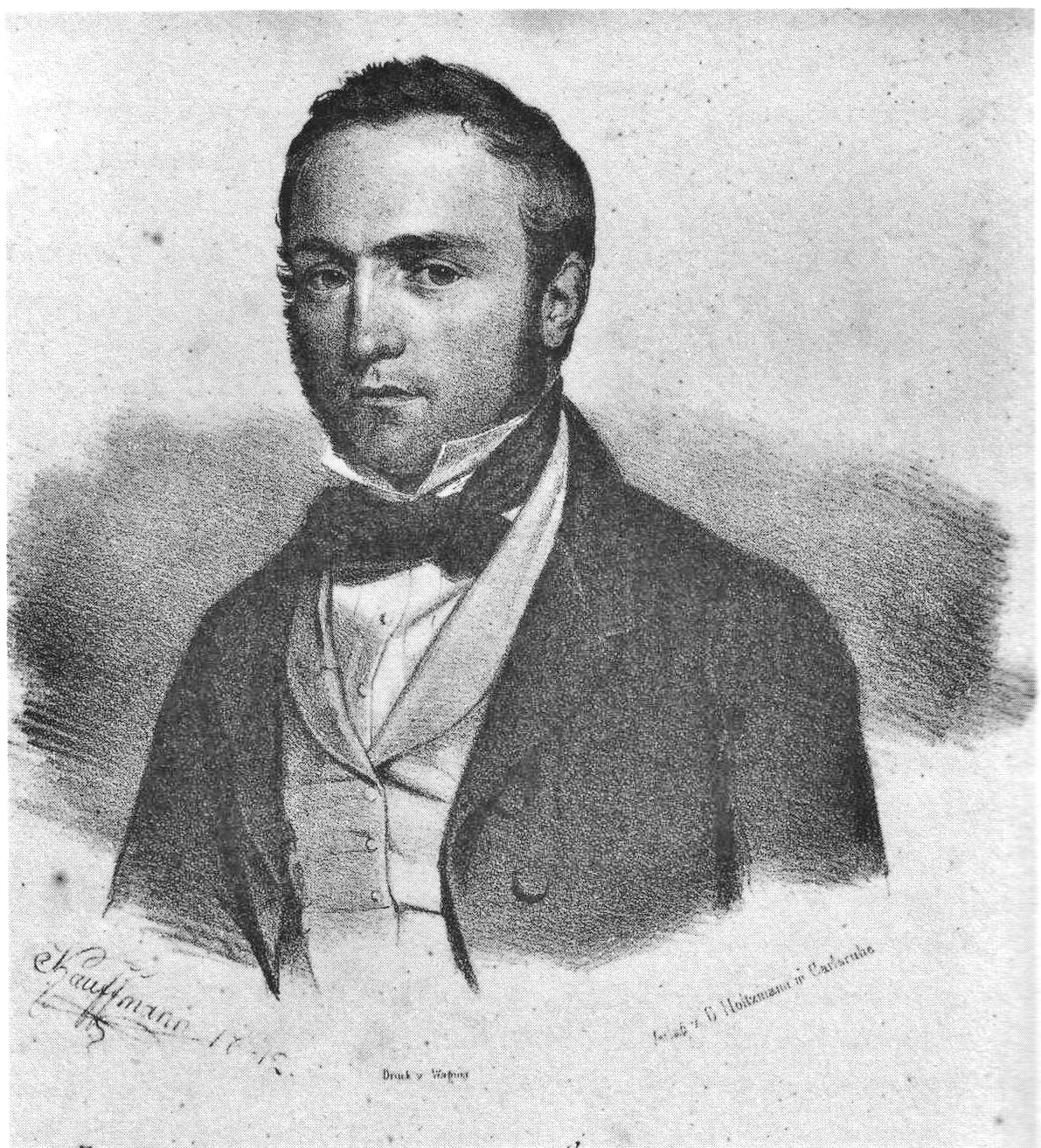 Friedrich Daniel Bassermann, German politician (1811-1855)